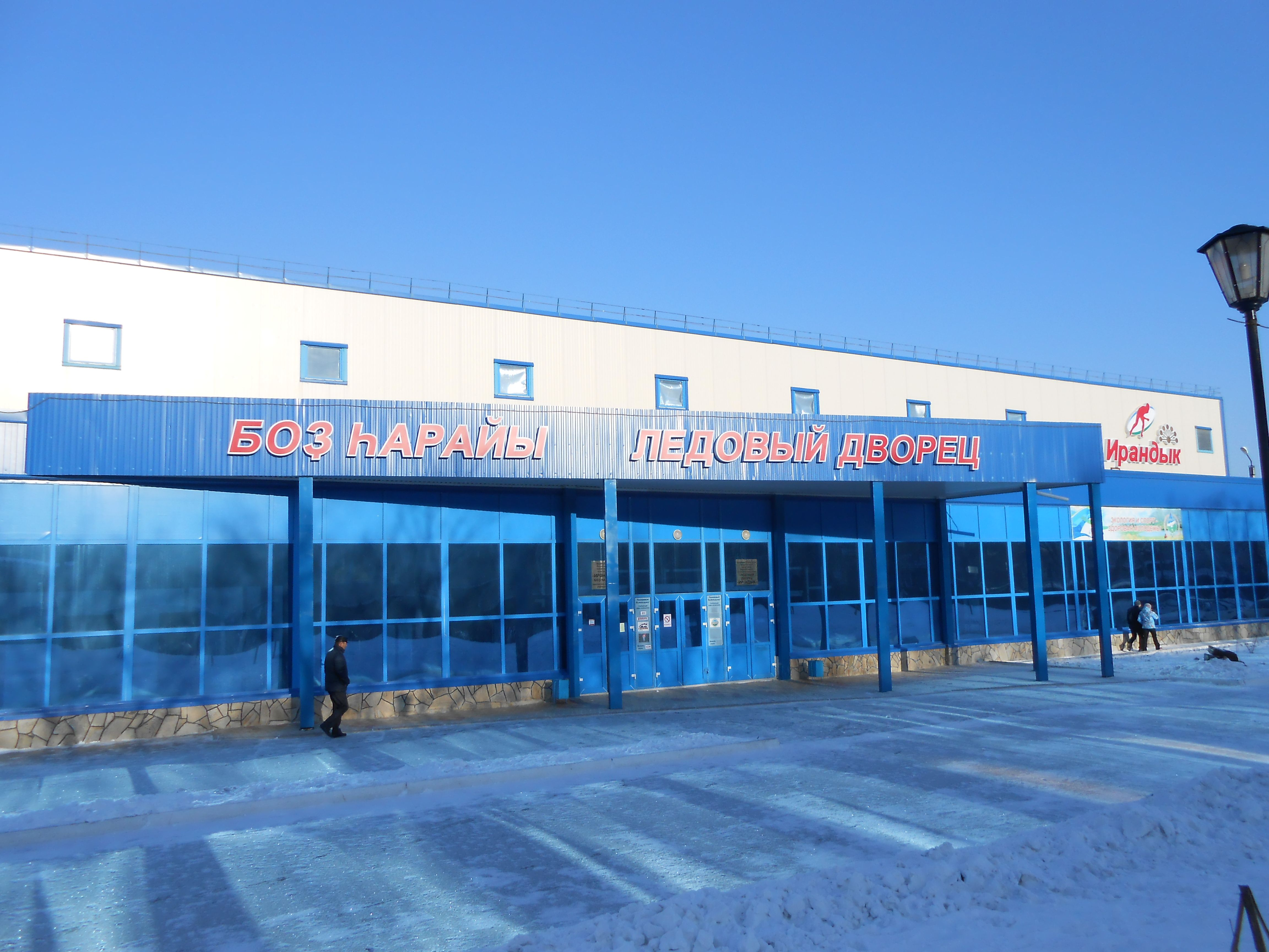 Sibay 2013